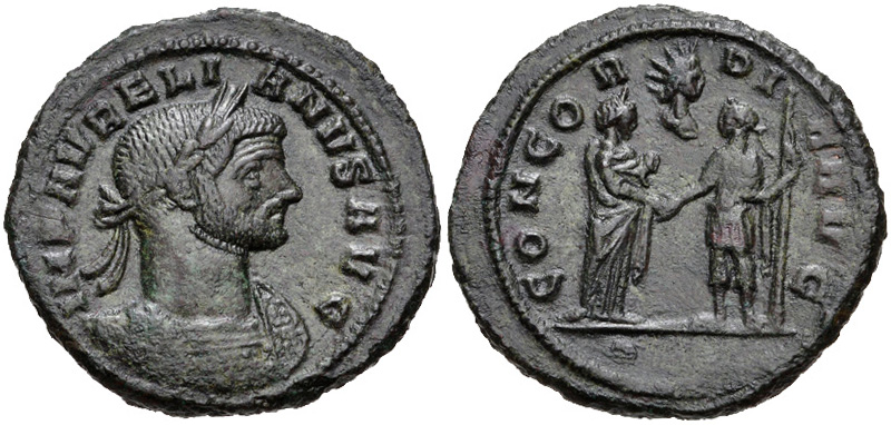 Aurelian. AD 270-275. Æ As (26mm, 9.02 g, 12h). Rome mint, 3rd officina. 11th emission, AD 275. IMP AVRELIANVS AVG, Laureate and cuirassed bust right CONCORDIA AVG, Severina and Aurelian, holding scepter, standing facing one another and clasping right hands; above, radiate head of Sol right; Γ. RIC V 80; BN 303.